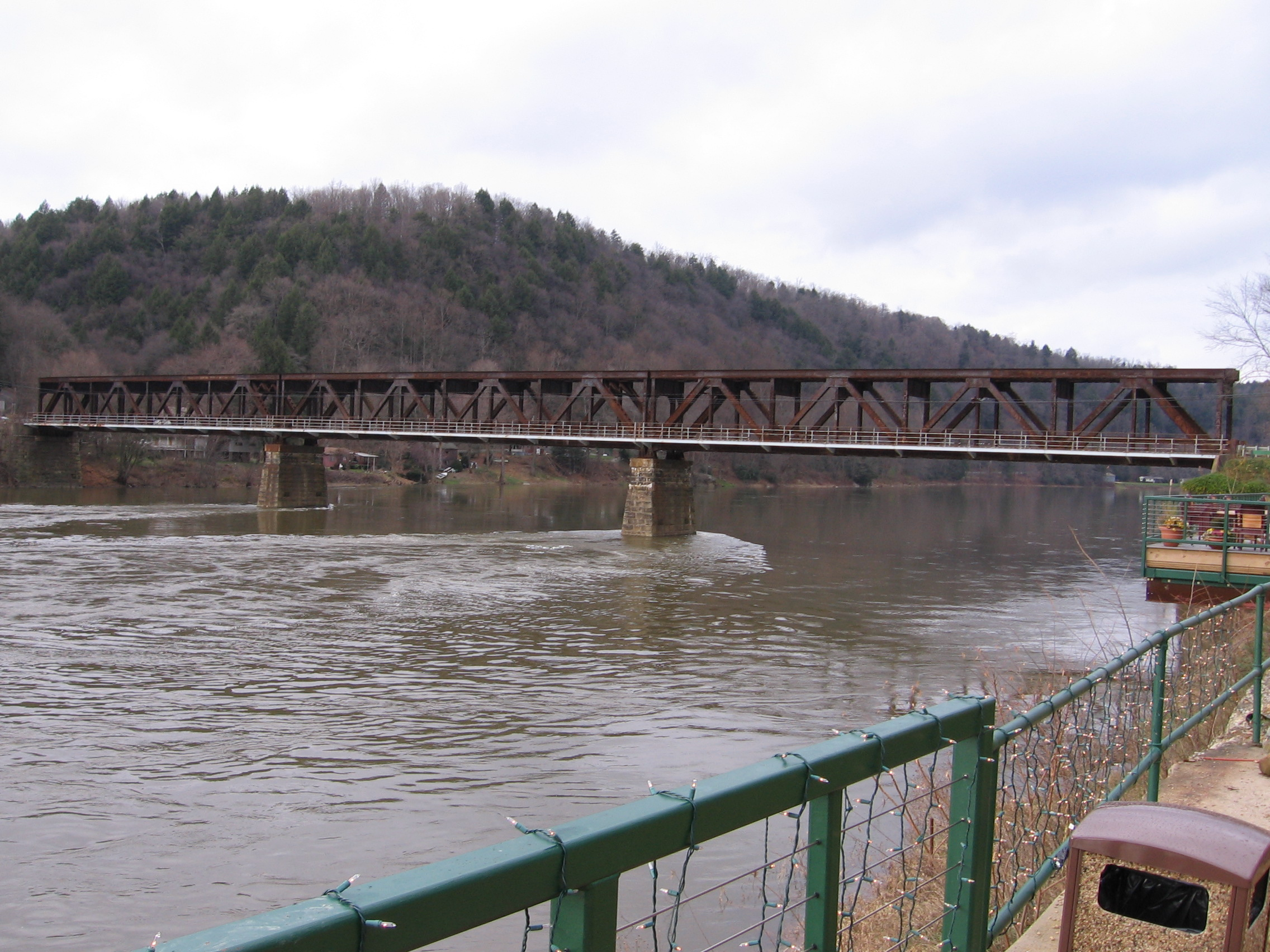 The Foxburg Bridge in Foxburg, Pennsylvania. Photo taken by Mvincec on 19 November, 2006.